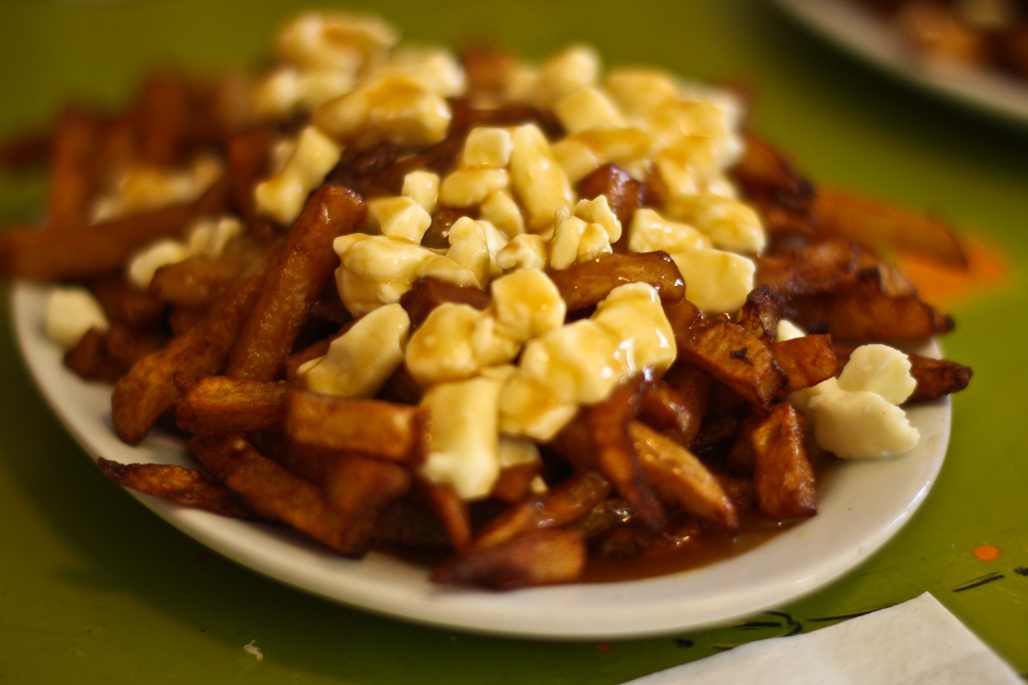 Poutine Classique at La Banquise in Montreal.